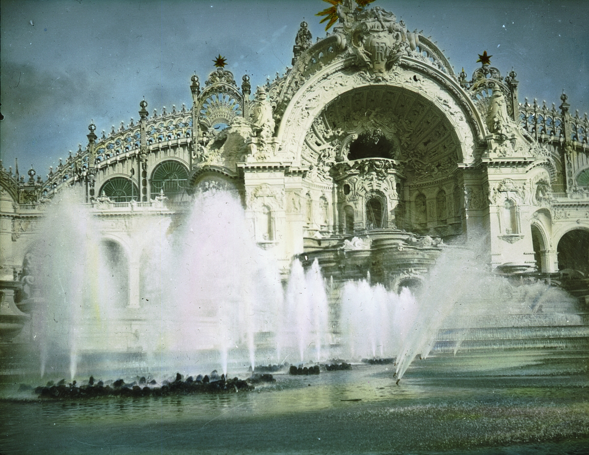 Paris Exposition: Château d'eau, Palace of Electricity, Paris, France, 1900. Brooklyn Museum Archives.